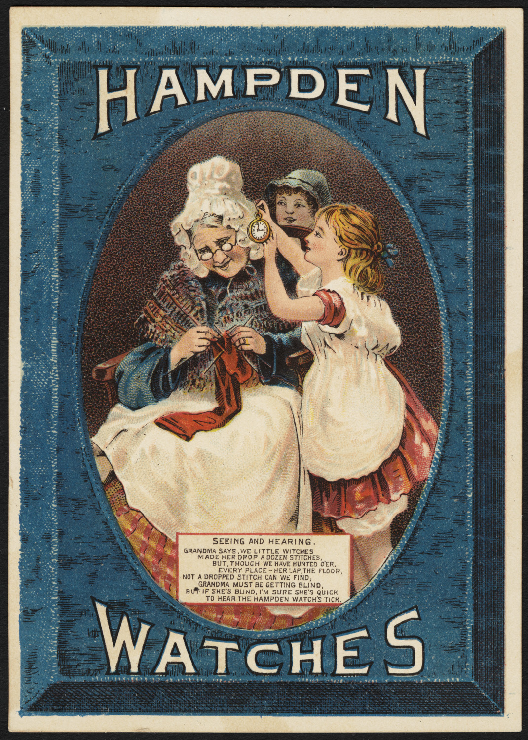 File name: 10_03_002587a Binder label: Shoes Title: "The Waterbury Maids" - Three little maids from school are we, proper and good, as we ought to be; the reason why, you will shortly see, three little maids from school. [front] Date issued: 1870 - 1900 (approximate) Physical description: 1 print : chromolithograph ; 12 x 9 cm. Genre: Advertising cards Subject: Older people; Children; Knitting; Clocks & watches Notes: Title from item. Retailer: Wadsworth & Wright, Keene, N. H. Collection: 19th Century American Trade Cards Location: Boston Public Library, Print Department Rights: No known restrictions.